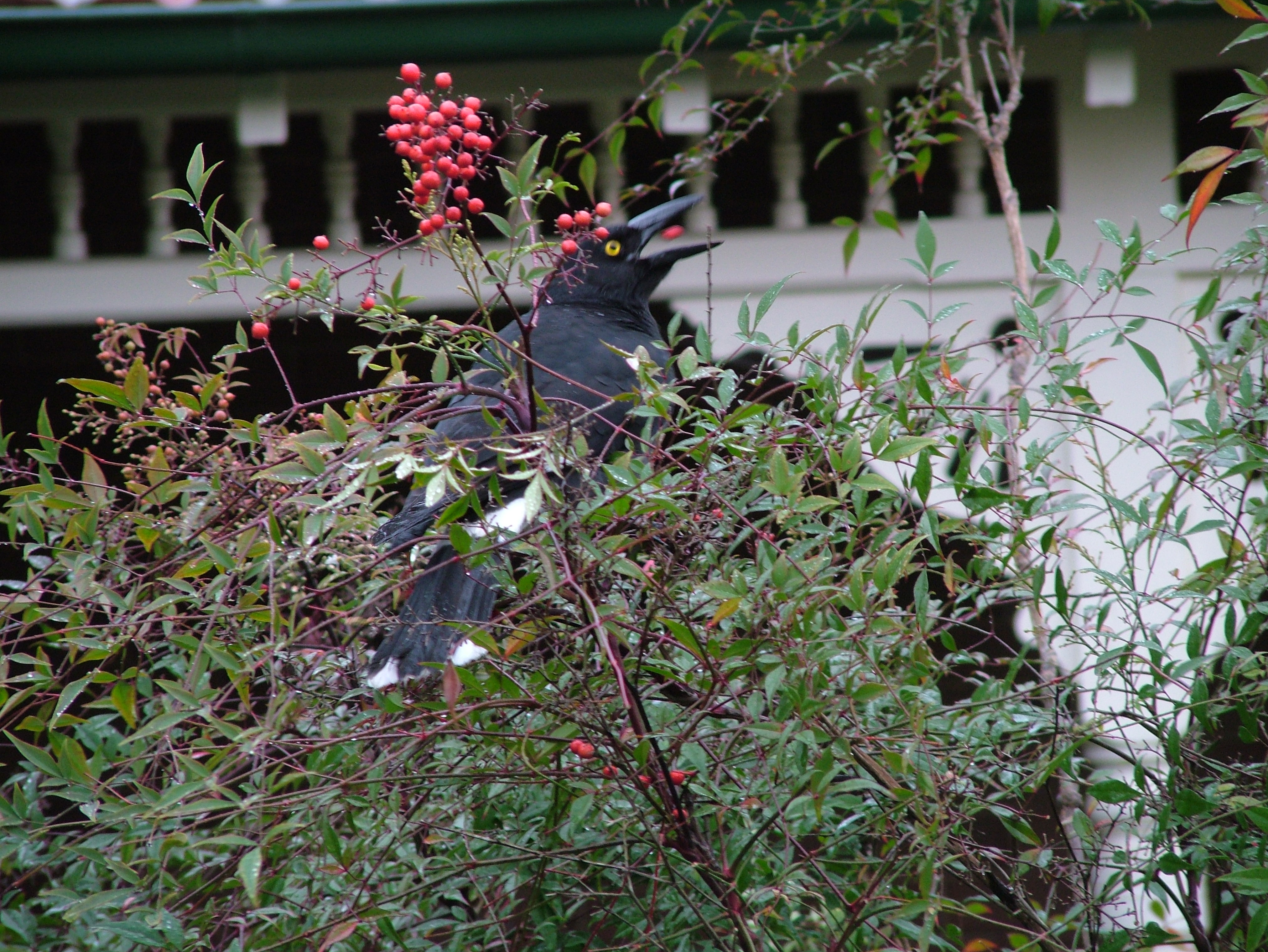 Pied Currawong. See Simpson & Day's Field Guide